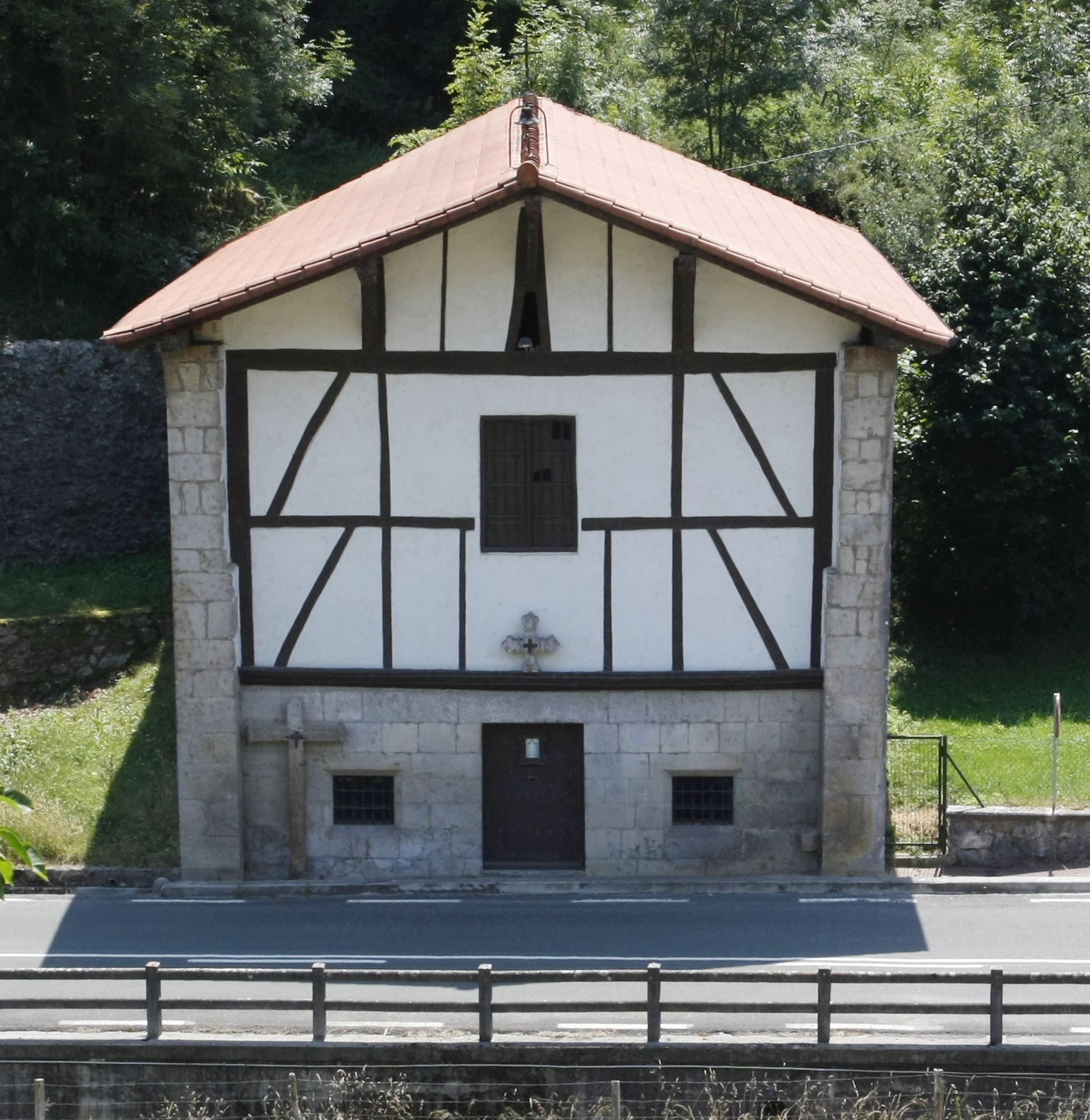 San Gregorio chapel - Albiztur